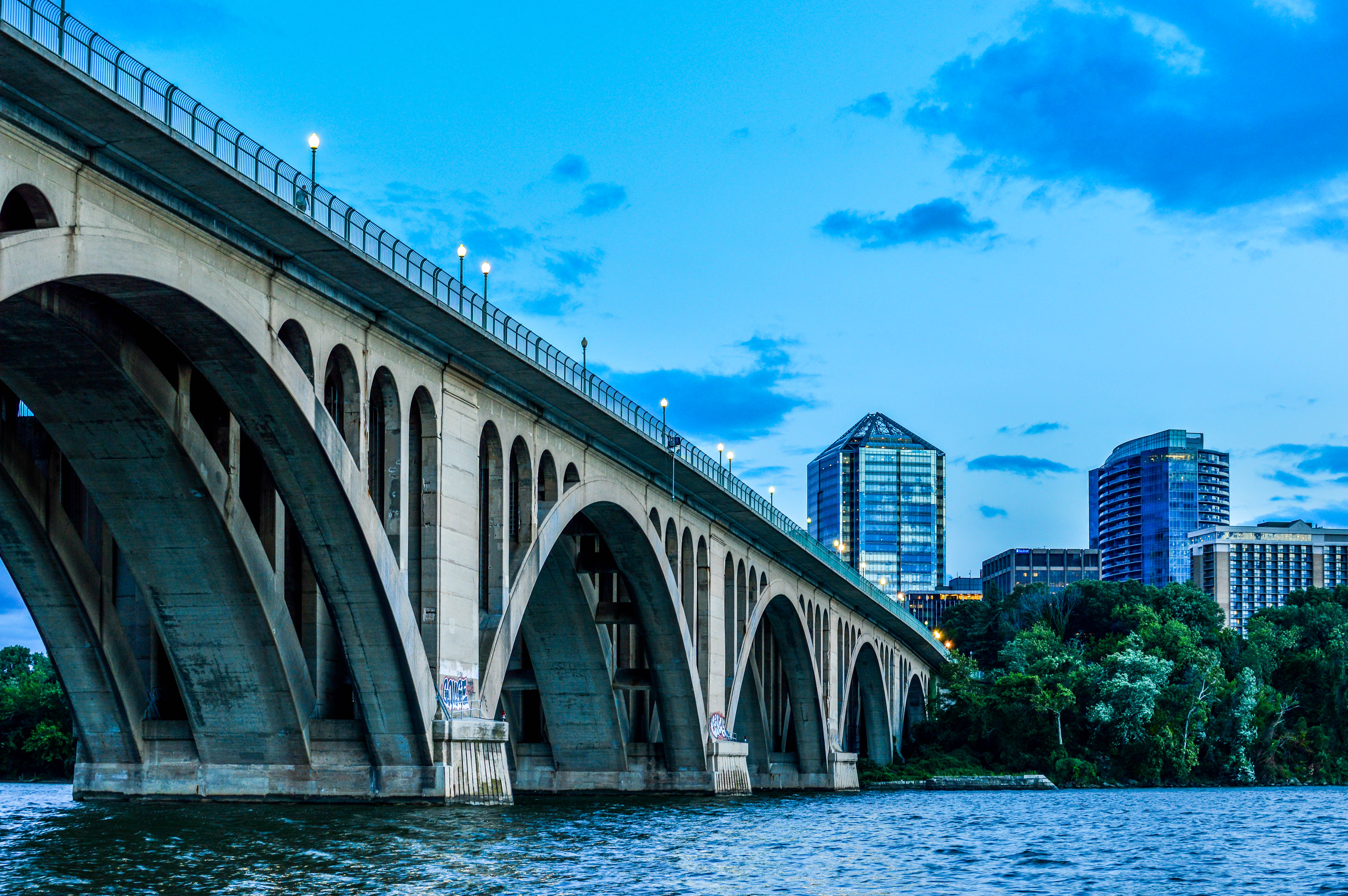 Francis Scott Key Bridge, US 29 over the Potomac River Georgetown